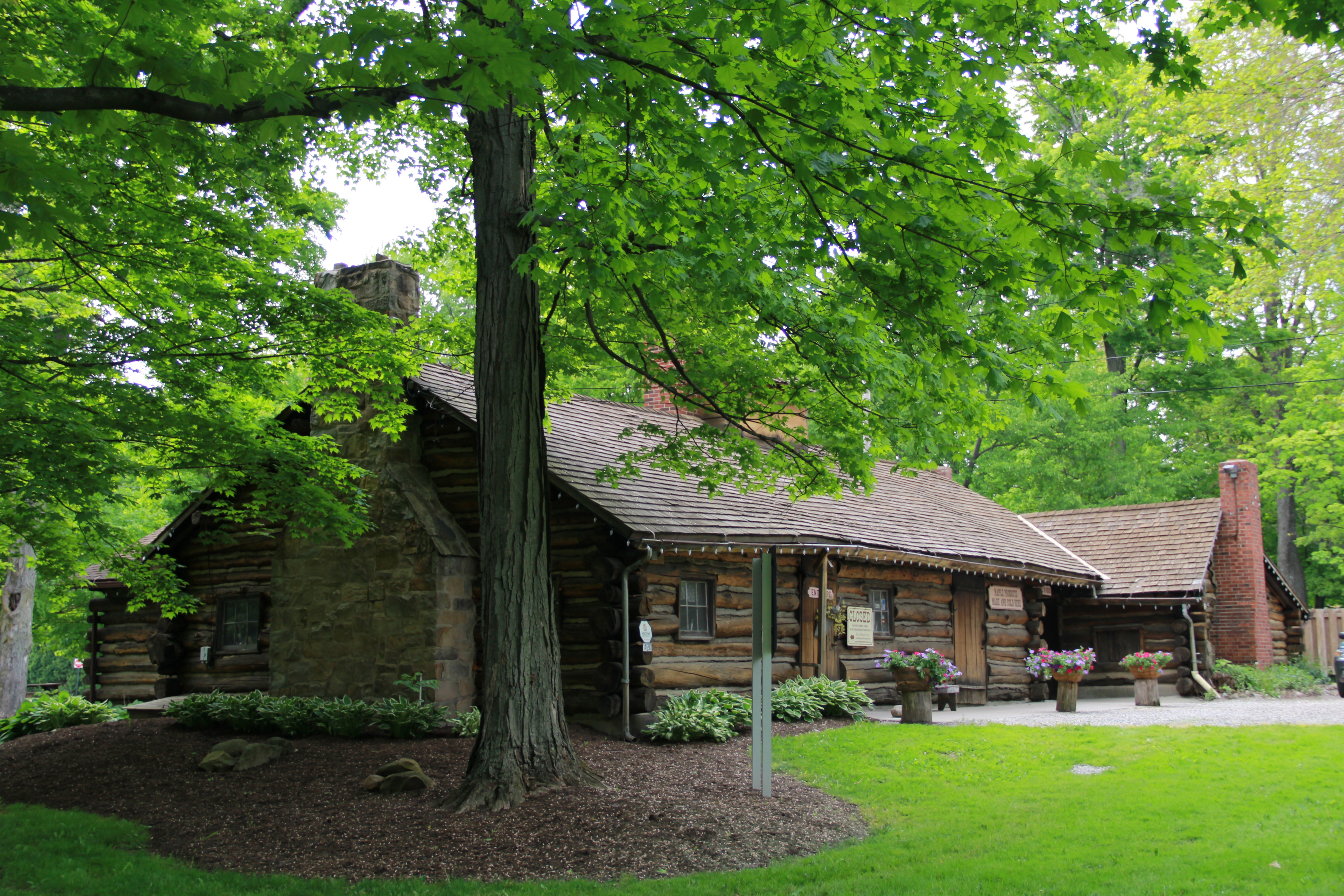 Burton, Ohio, May 2015.